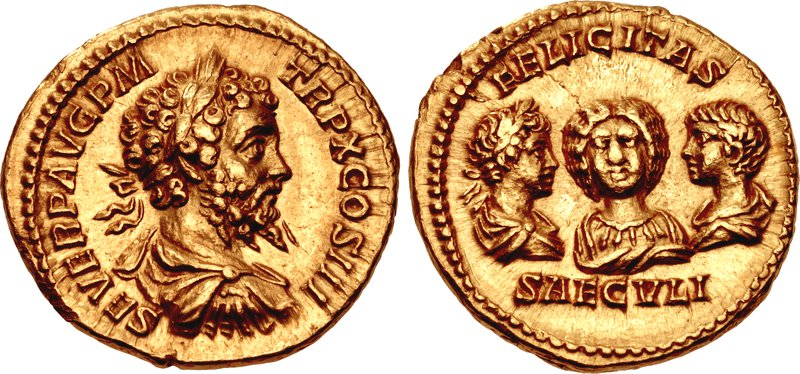 Septimius Severus, with Julia Domna, Caracalla, and Geta. AD 193-211. AV Aureus (20mm, 7.39 g, 5h). Rome mint. Struck AD 202. SEVER P AVG P M TR P X COS III, laureate, draped, and cuirassed bust right / FELICITAS above, SAECVLI below, laureate and draped bust of Caracalla right; facing, draped bust of Julia Domna; bareheaded and draped bust of Geta left. RIC IV 181c; Calicó 2593. EF, traces of deposits, light scratch on reverse. Rare and popular type. From the Robert O. Ebert Collection.